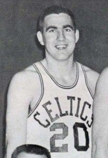 The 1956-57 Boston Celtics that won the first championship for the franchise.